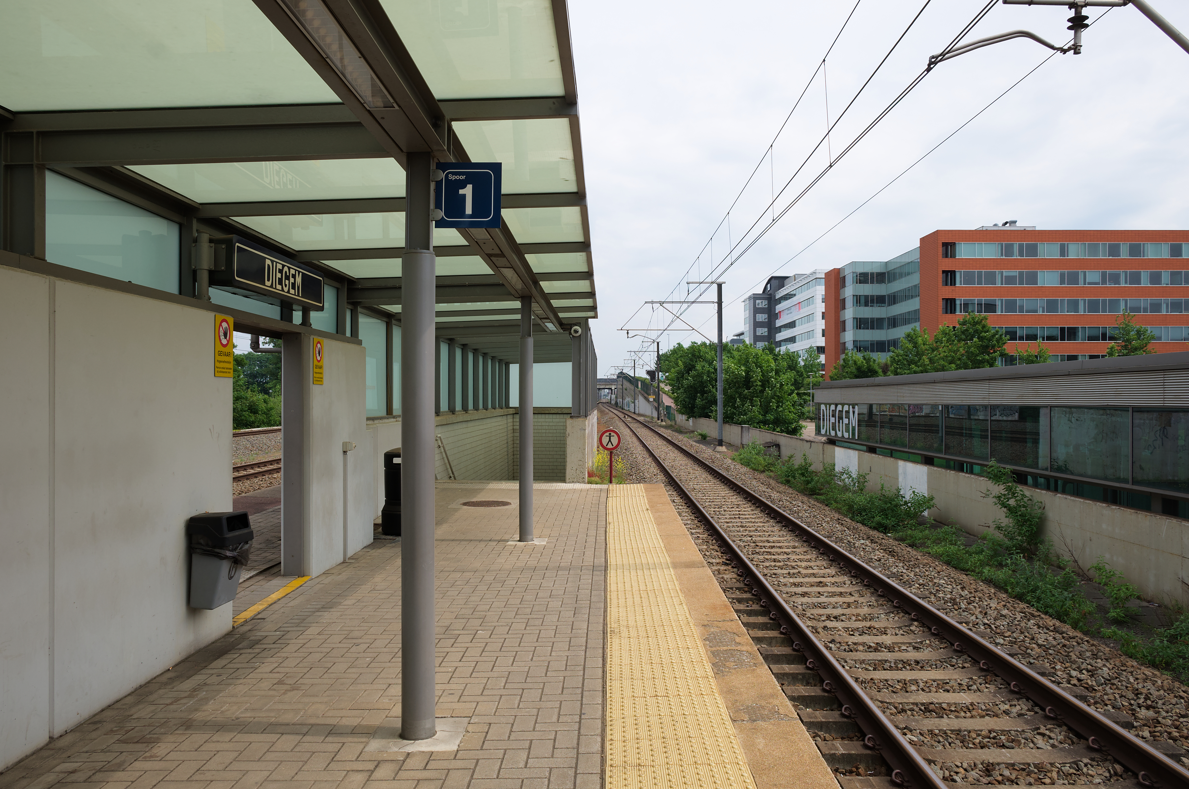 Diegem train station platform 1 (Belgium)